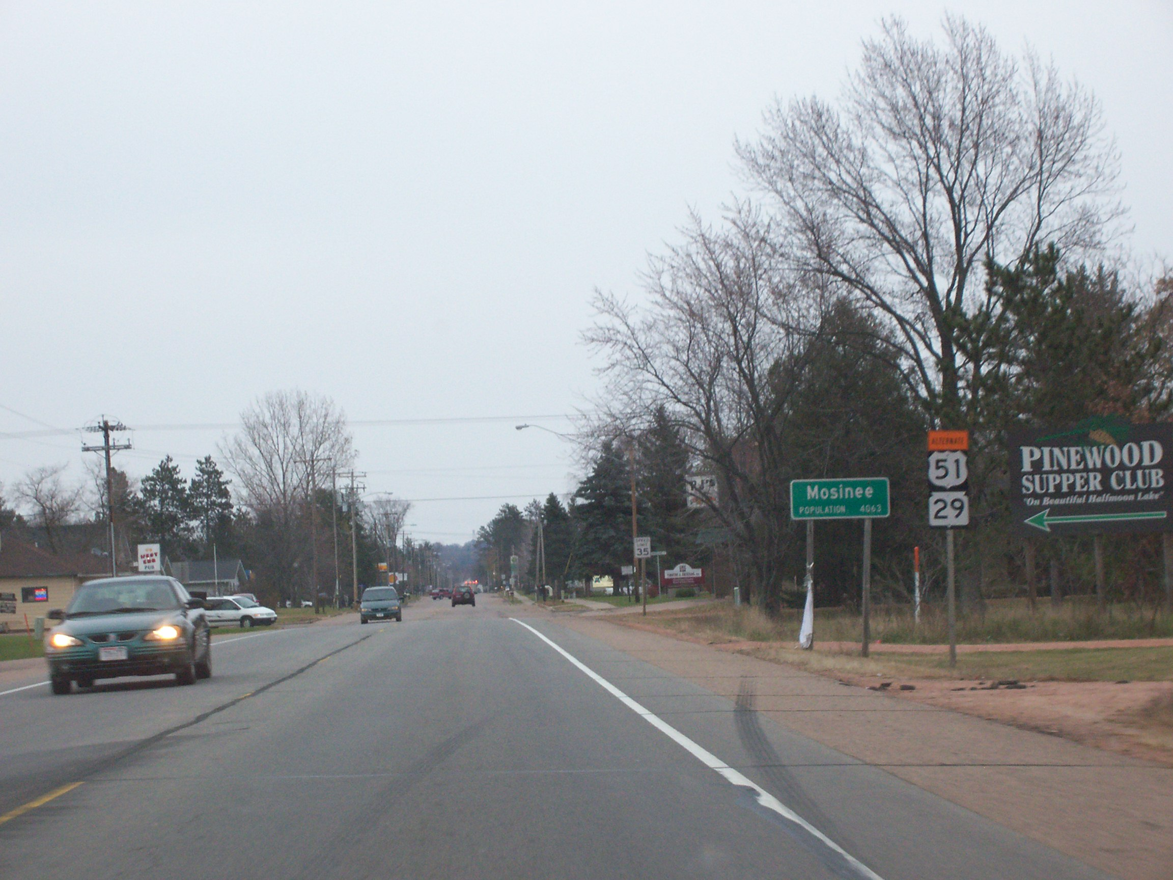 Looking east at sign for Mosinee, Wisconsin, USA on Wisconsin Highway 153.